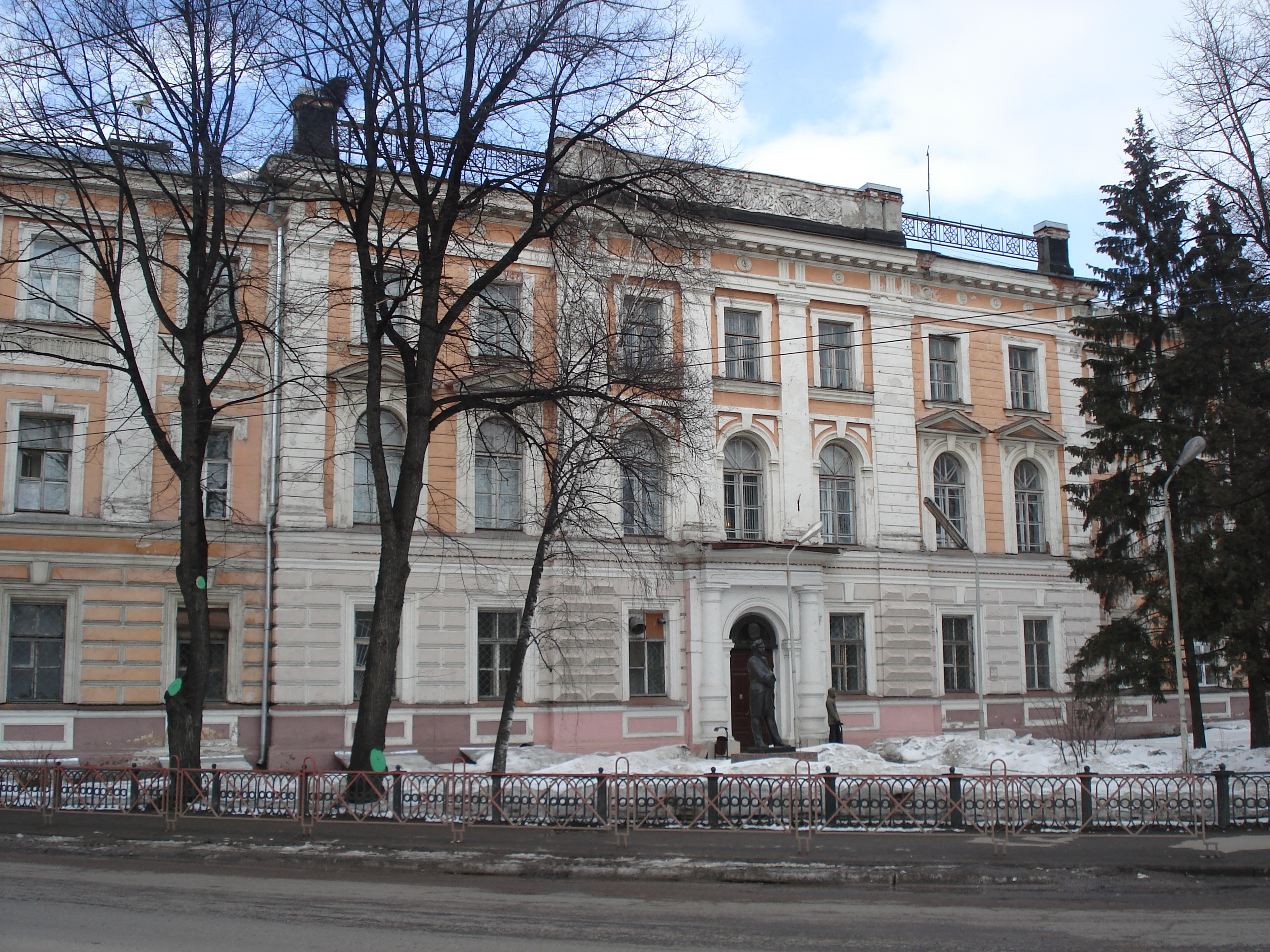 Yaroslavl State University, 1 corpus.